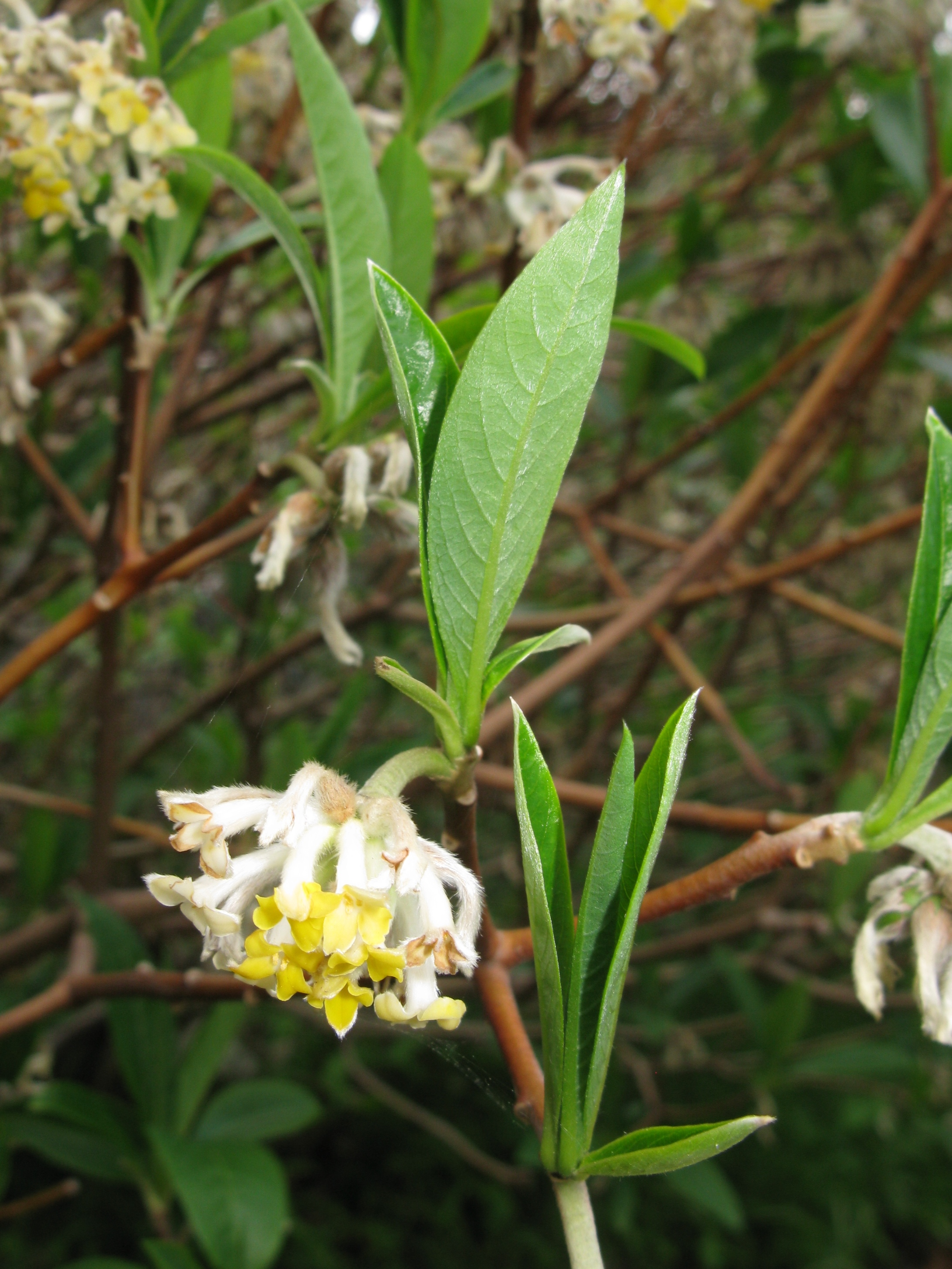 Edgeworthia chrysantha, Botanical Gardens, Nikko, Graduate School of Science, The University of Tokyo, Tochigi pref., Japan